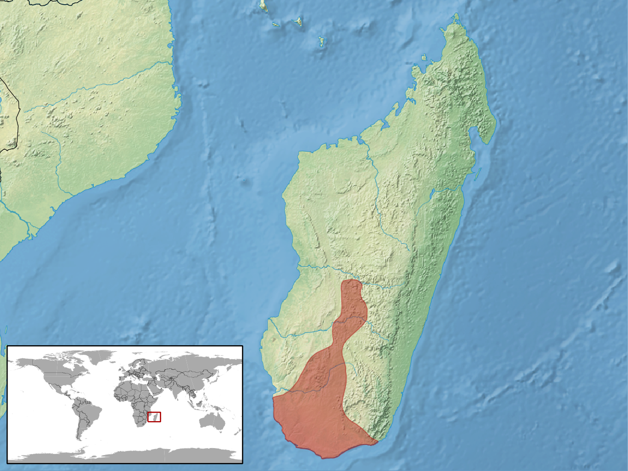 geographic distribution of Trachylepis vato